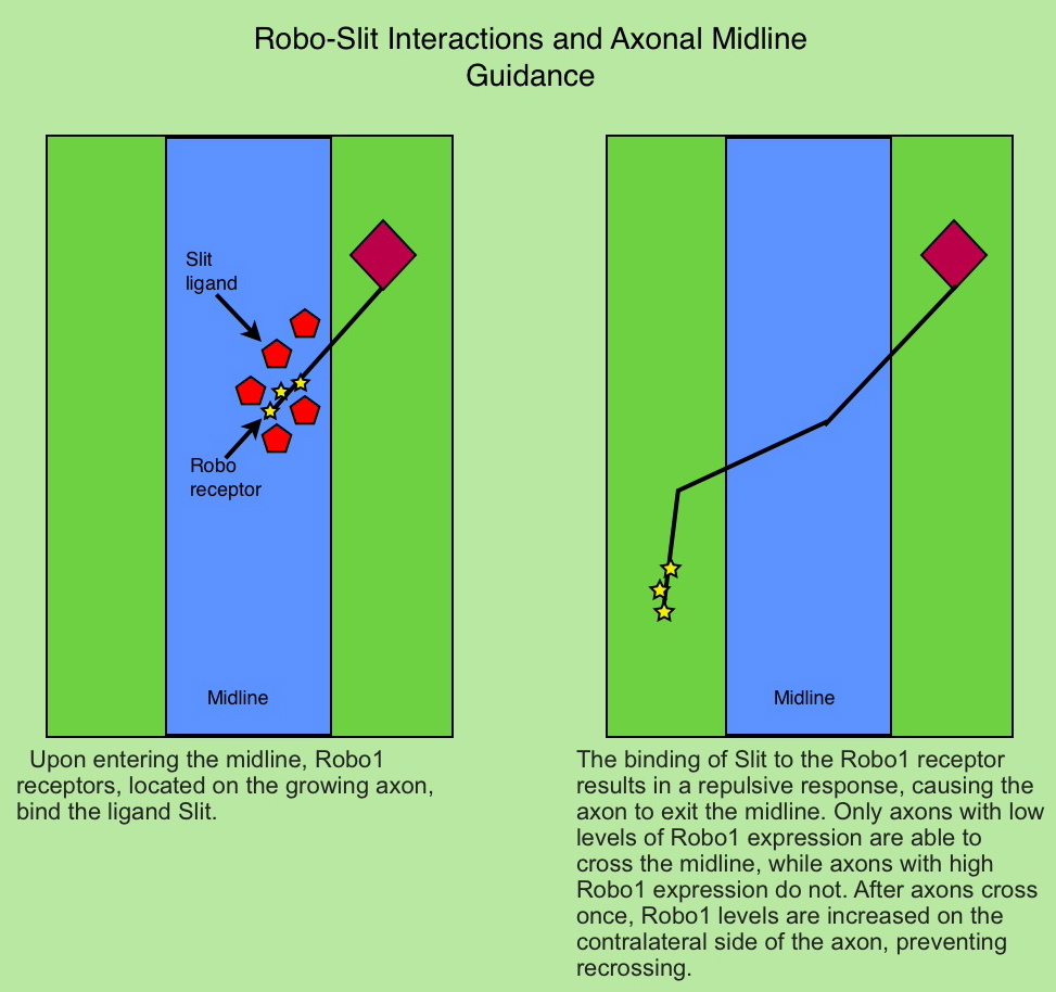 Interactions between Robo and Slit lead to a repulsive force that drives a growing axon to exit the midling